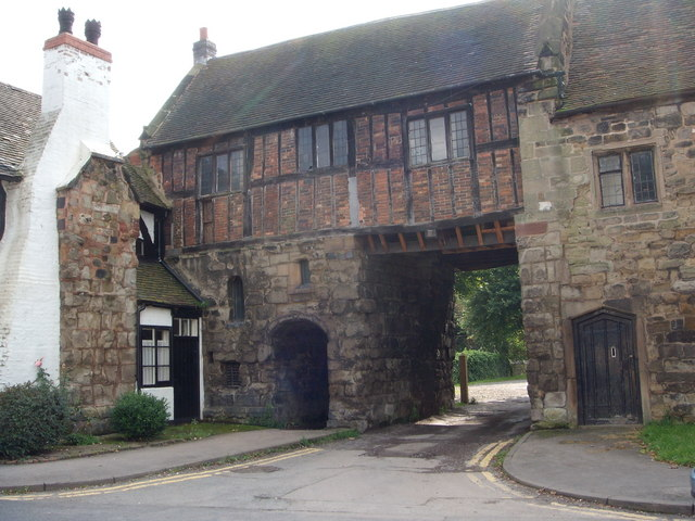 Polesworth Nunnery Gateway